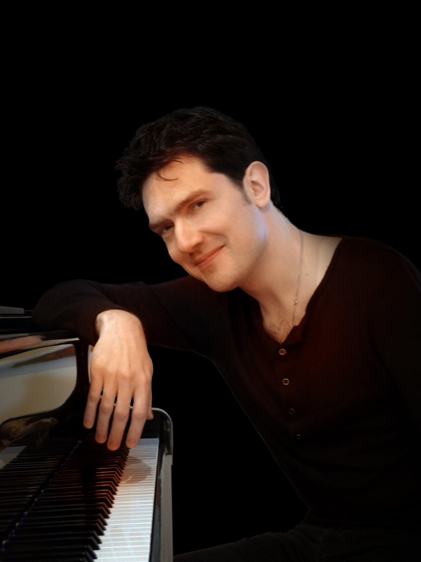 Official Press Release Photograph of Konstantin Lapshin